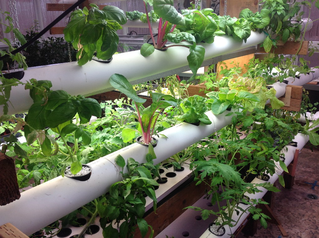 Plants take up water and nutrients that flow through a PVC pipe in the nutrient film technique (NFT) hydroponics system. Photo courtesy of Barry Burnsides.